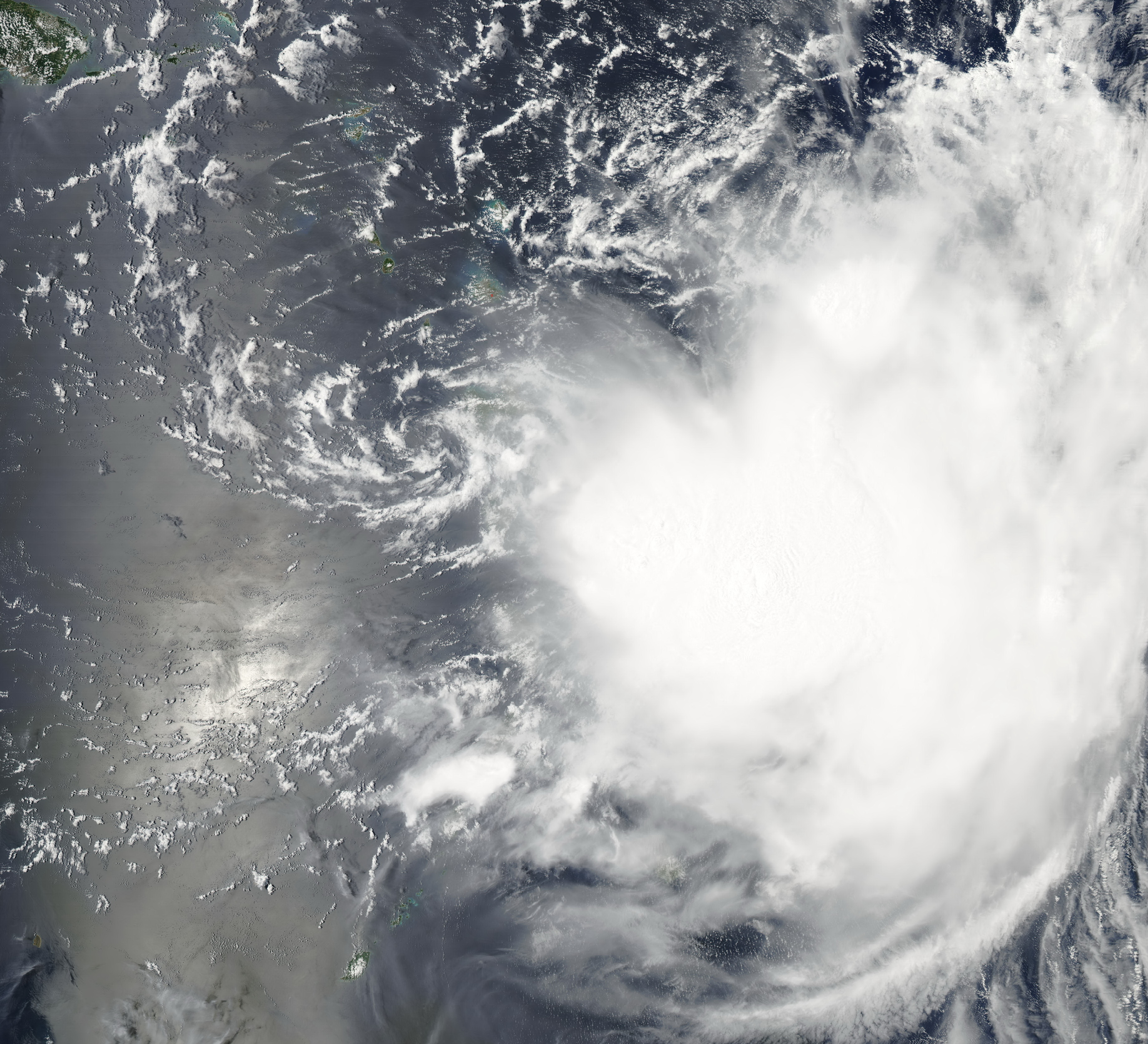 Tropical Storm Erika.